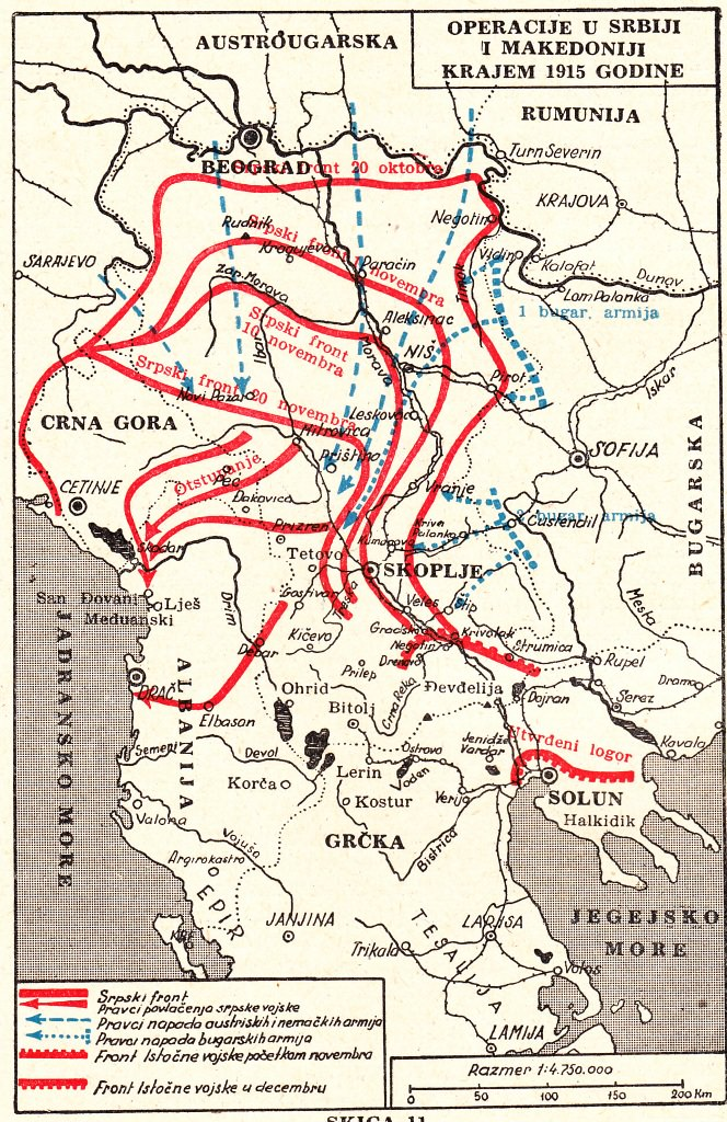 map of Serbian front lines towards end of WWI